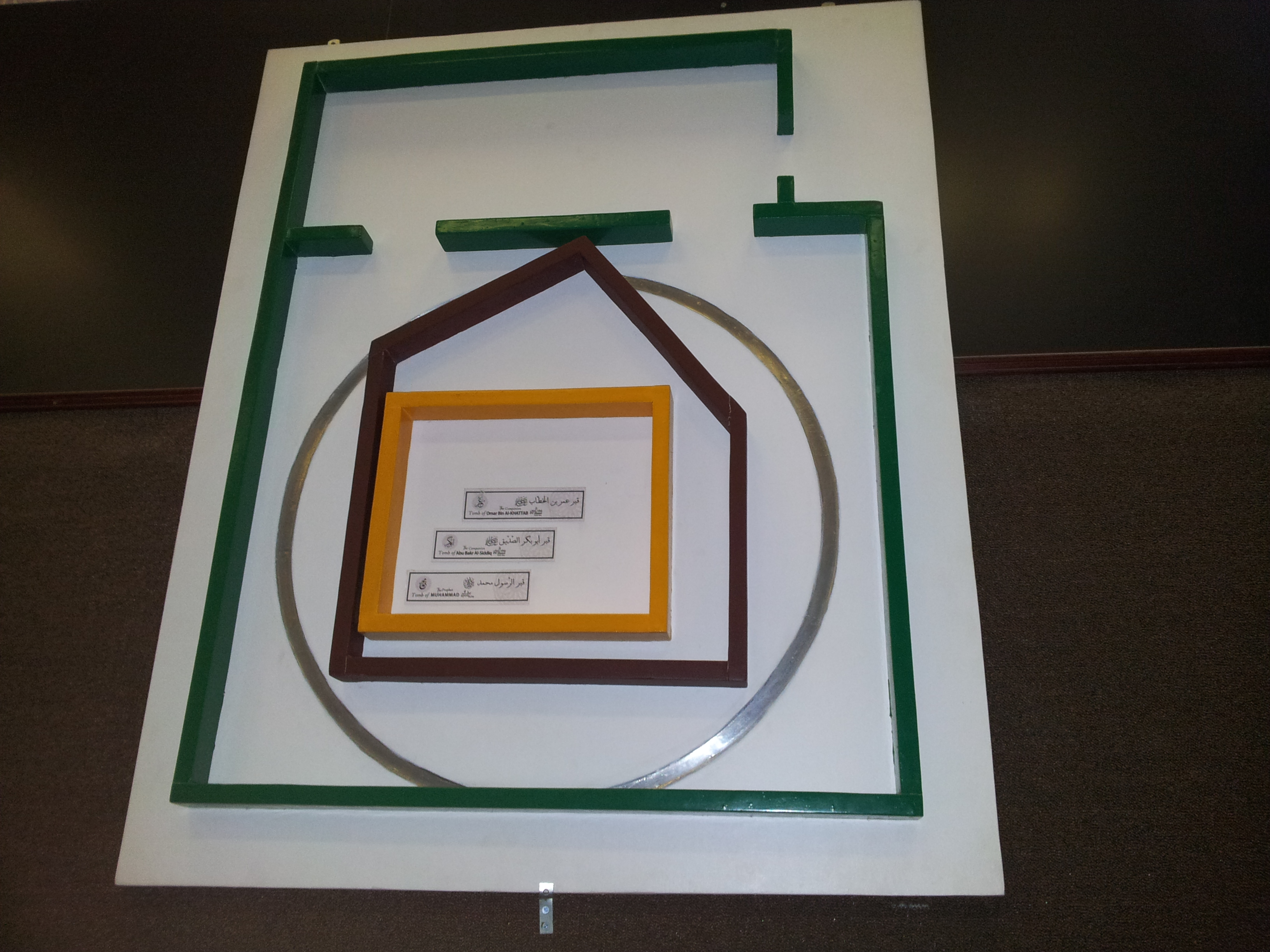 Al-Masjid Al-Nabawi, Hujrah Example